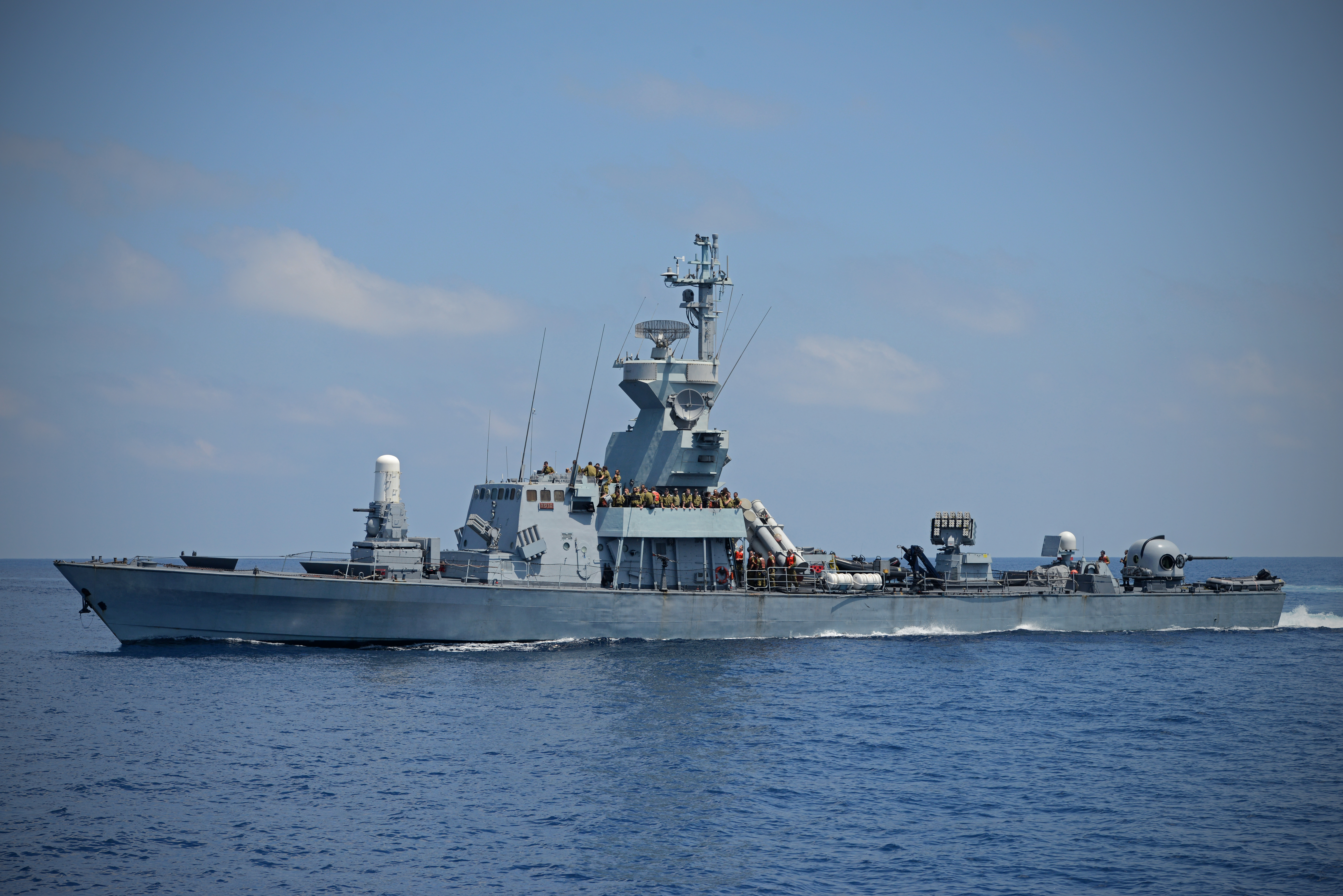 Navy, airforce and infantry cadets meet in a unique workshop, where they learned how to work together and communicate effectively.